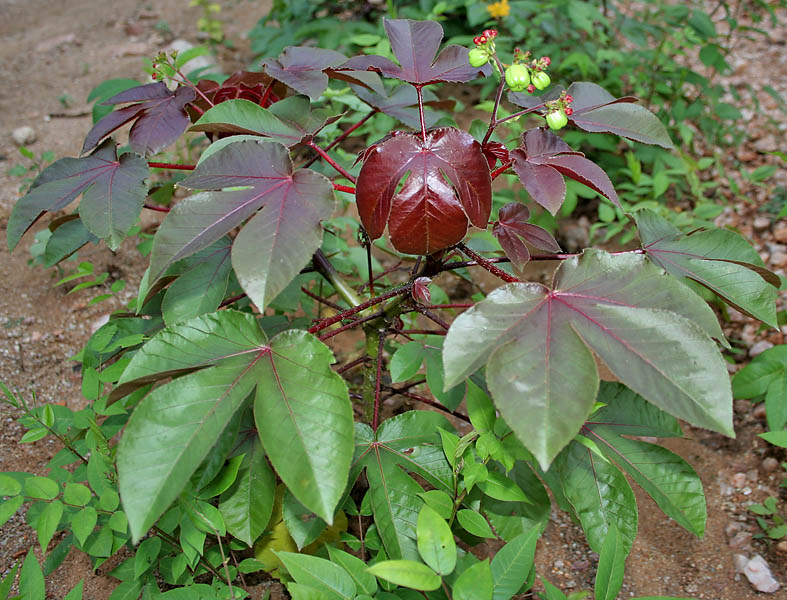 Bellyache Bush or Cottonleaf Physic Nut Jatropha gossipifolia in Hyderabad , India.